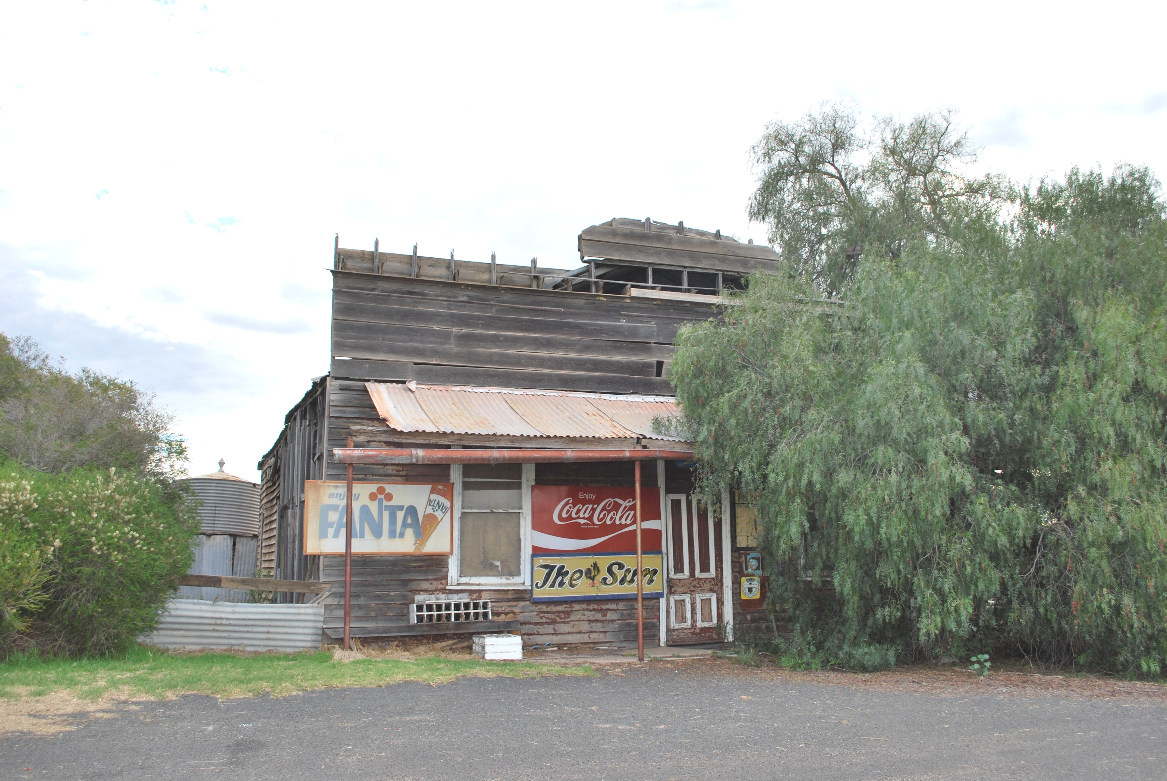 General store, now closed, at Gymbowen, Victoria